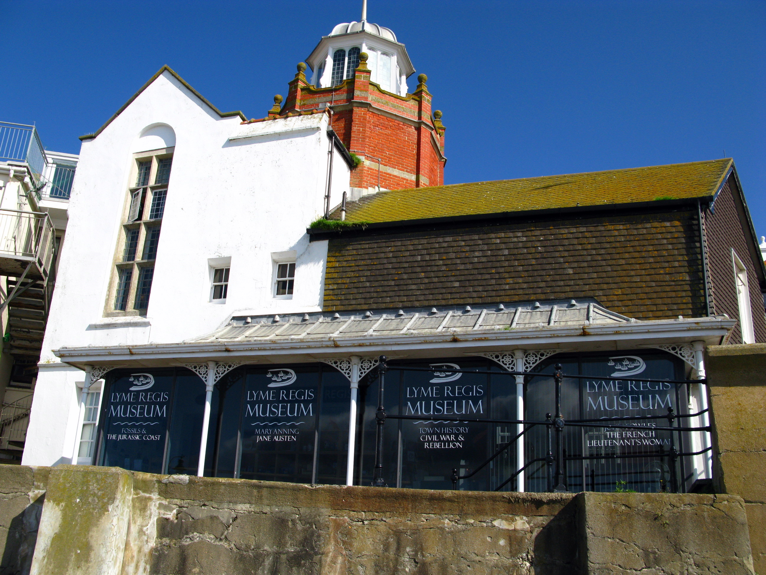 Museum of Lyme Regis on the coast of the English Channel near the western border of Dorset / England / European Union. Inscription on the window panes, "LYME REGIS MUSEUM. Fossils & The Jurassic Coast